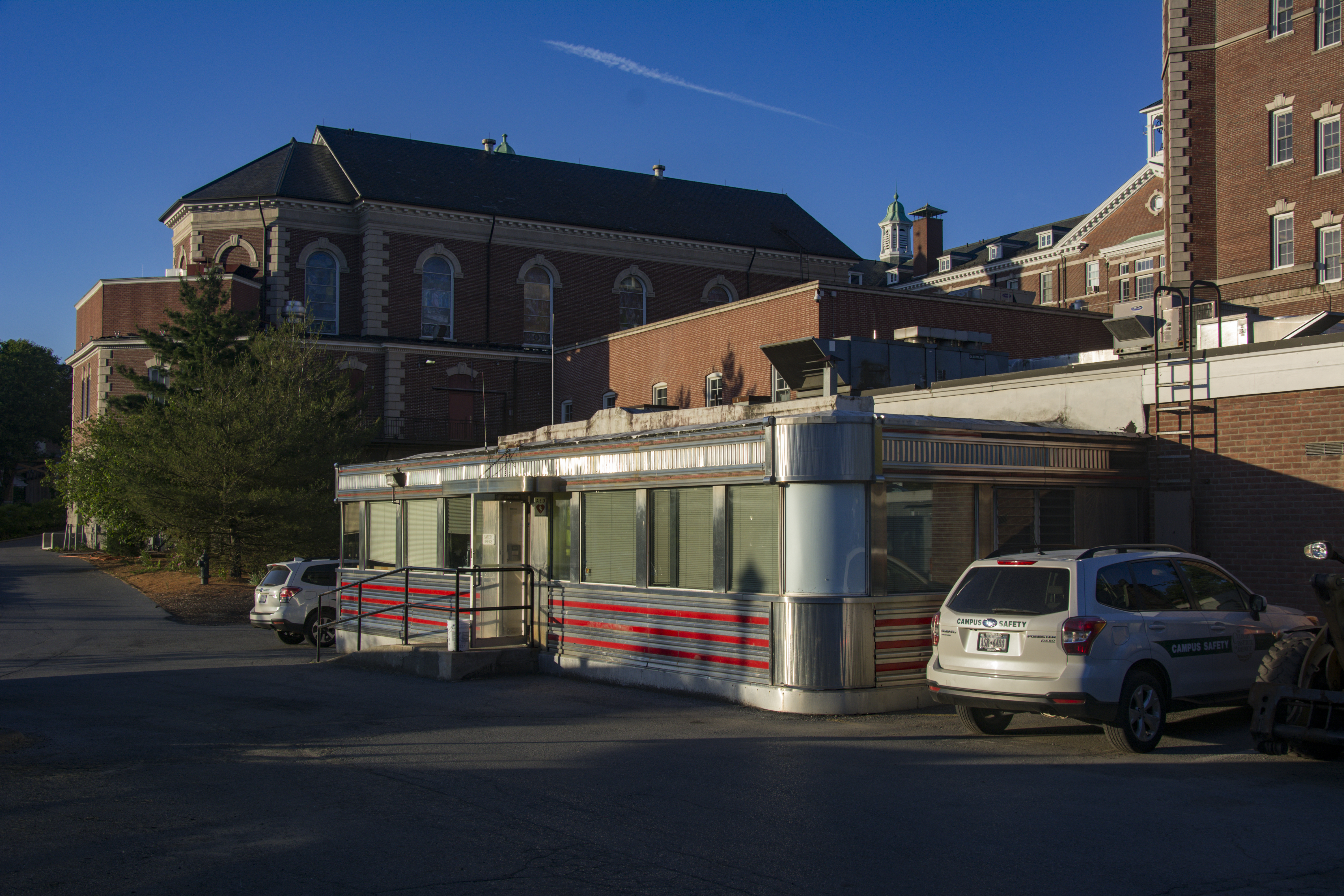 Part of the Culinary Institute of America's Hyde Park campus.